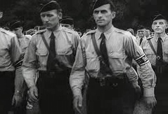 German American Bund rally (1938 or 1939); from: "Battle of the United States", Spies in US; FBI; J. Edgar Hoover, Story RG-60.4508, Tape 2820